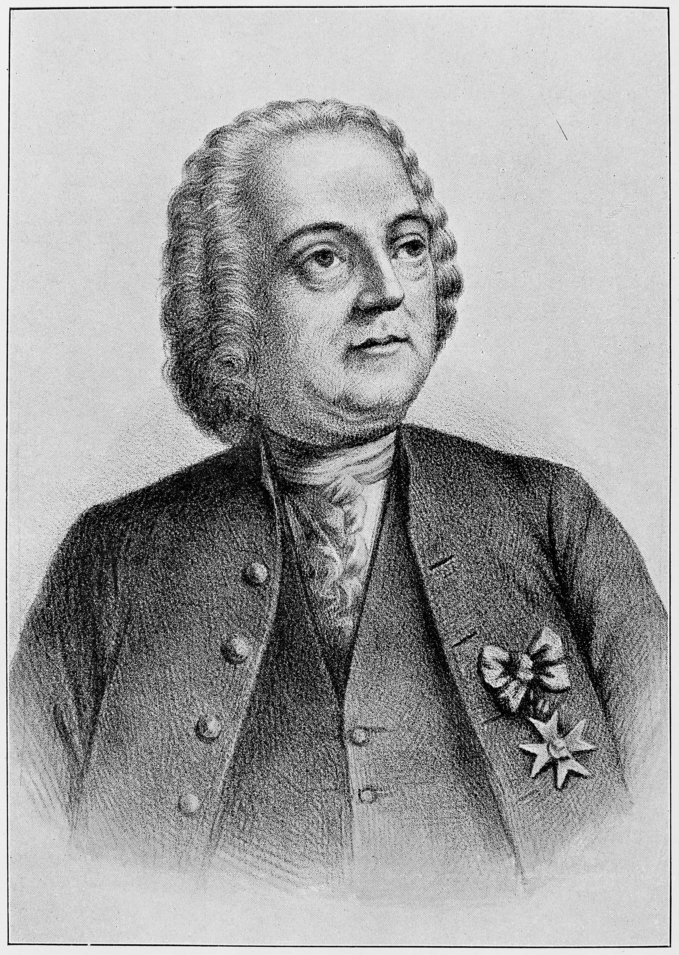 Portrait of Jacques Daviel Wellcome Images Keywords: Jacques Daviel